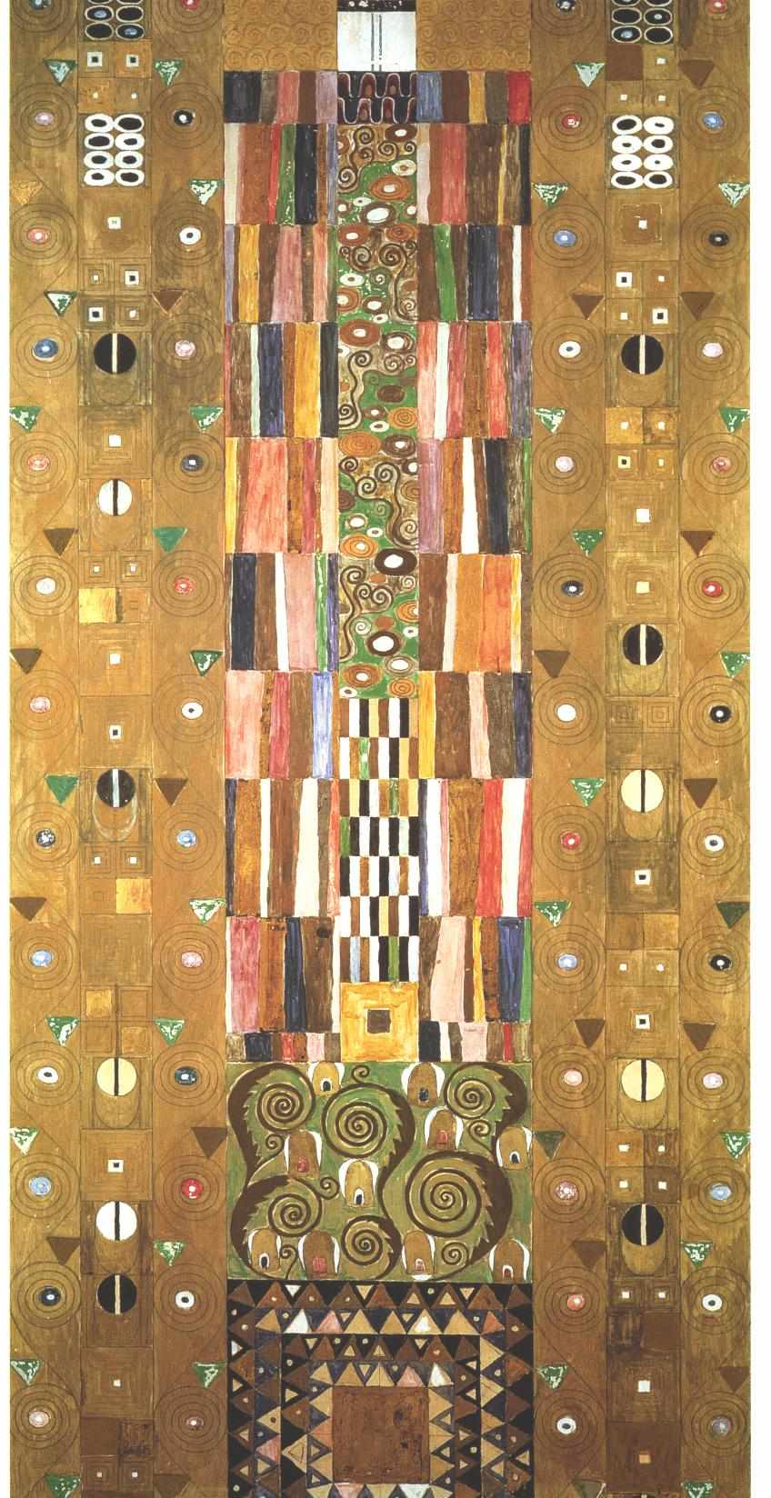 Design for the Stocletfries